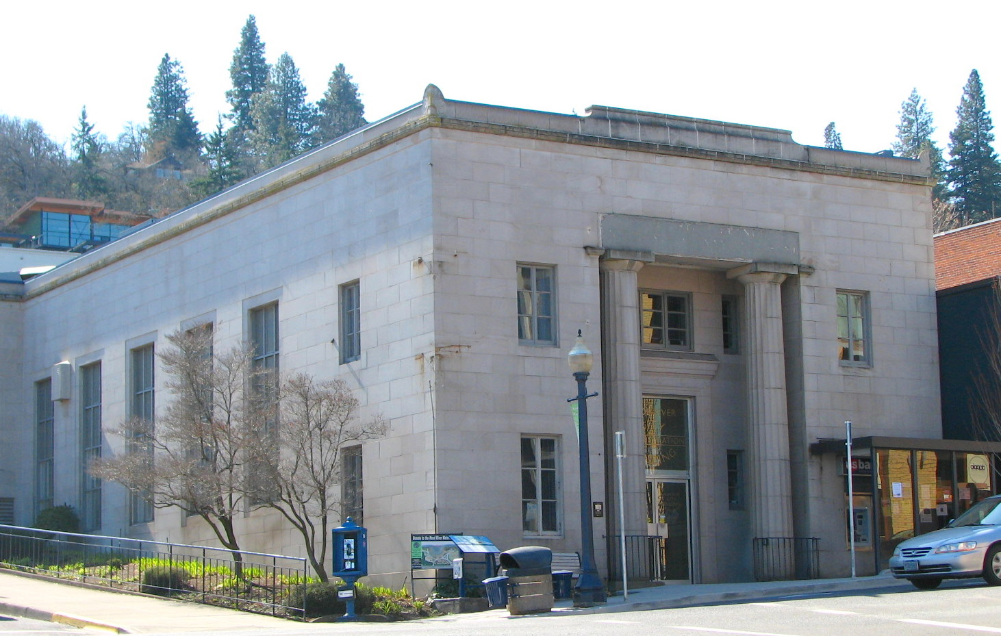 The historic Butler Bank (built 1924), located at 301 Oak Street in Hood River, Oregon, United States, is listed on the US National Register of Historic Places (NRHP). It is currently in use for city offices.